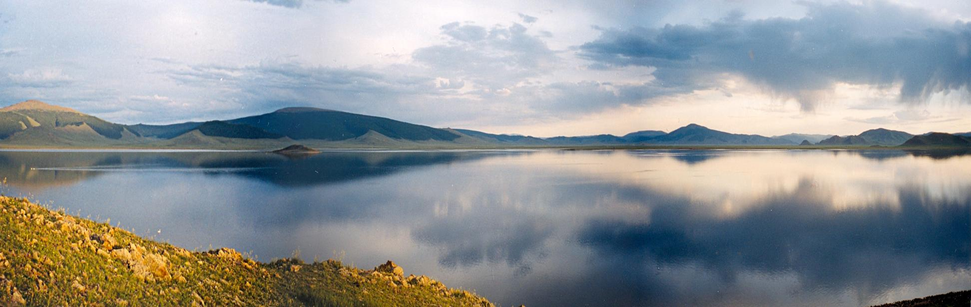 Terkhiin Tsagaan Nuur (Great White Lake), Khangai Mountains, Arkhangai Province, Mongolia. Created by stitching three photos using Laplace Pyramid Blending after registration by manual point matching and homography retrieval using RANSAC.